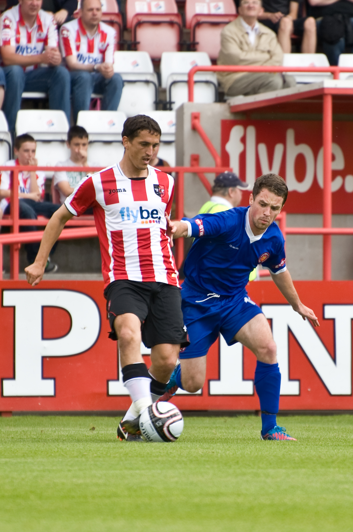 Craig Woodman in action for Exeter City against FC United of Manchester in a pre-season friendly in 2012